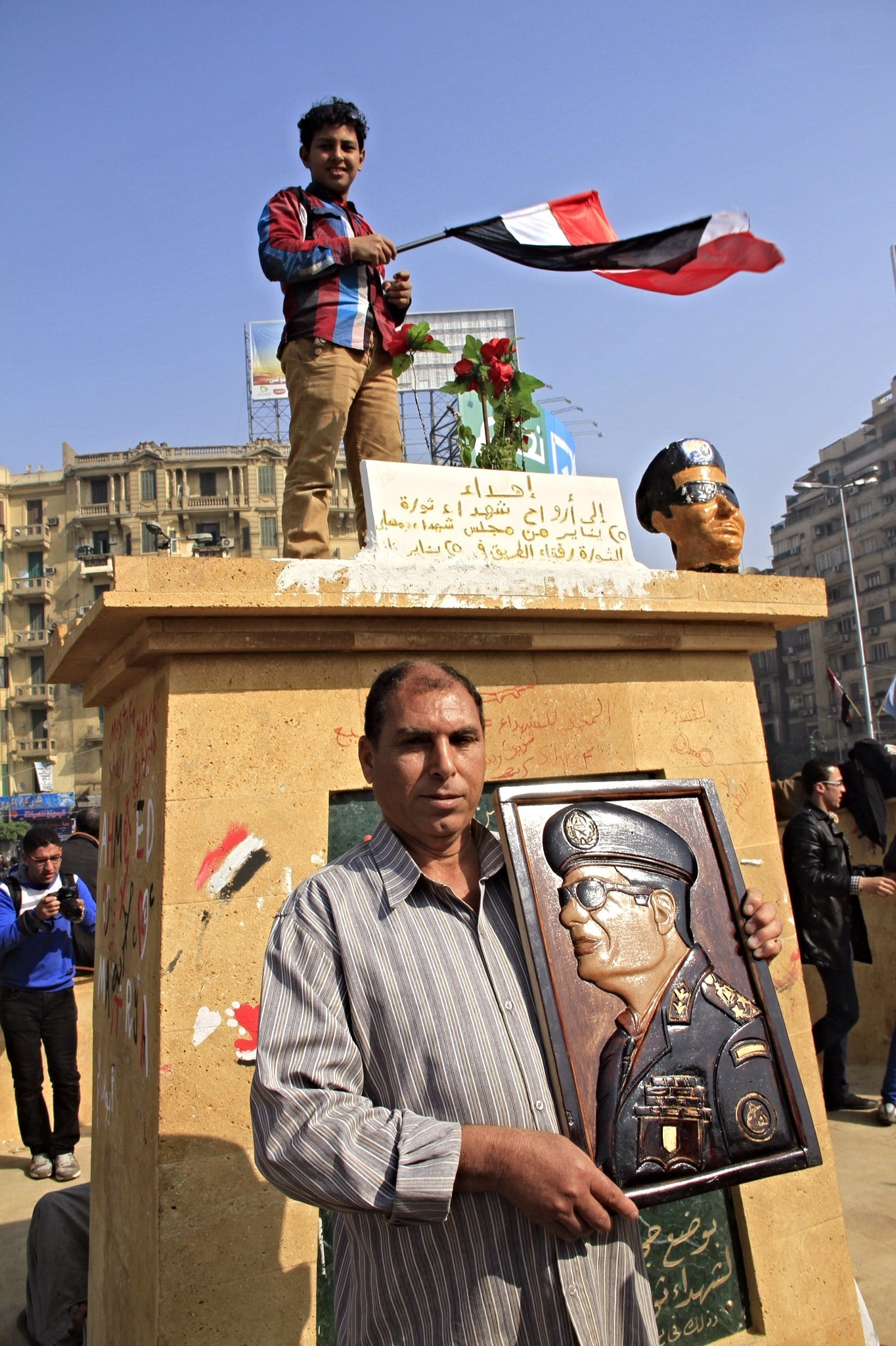 Original description: "Participants hold flag, picture of General Abdel Fateh el Sissi, (Hamada Elrasam for VOA)."